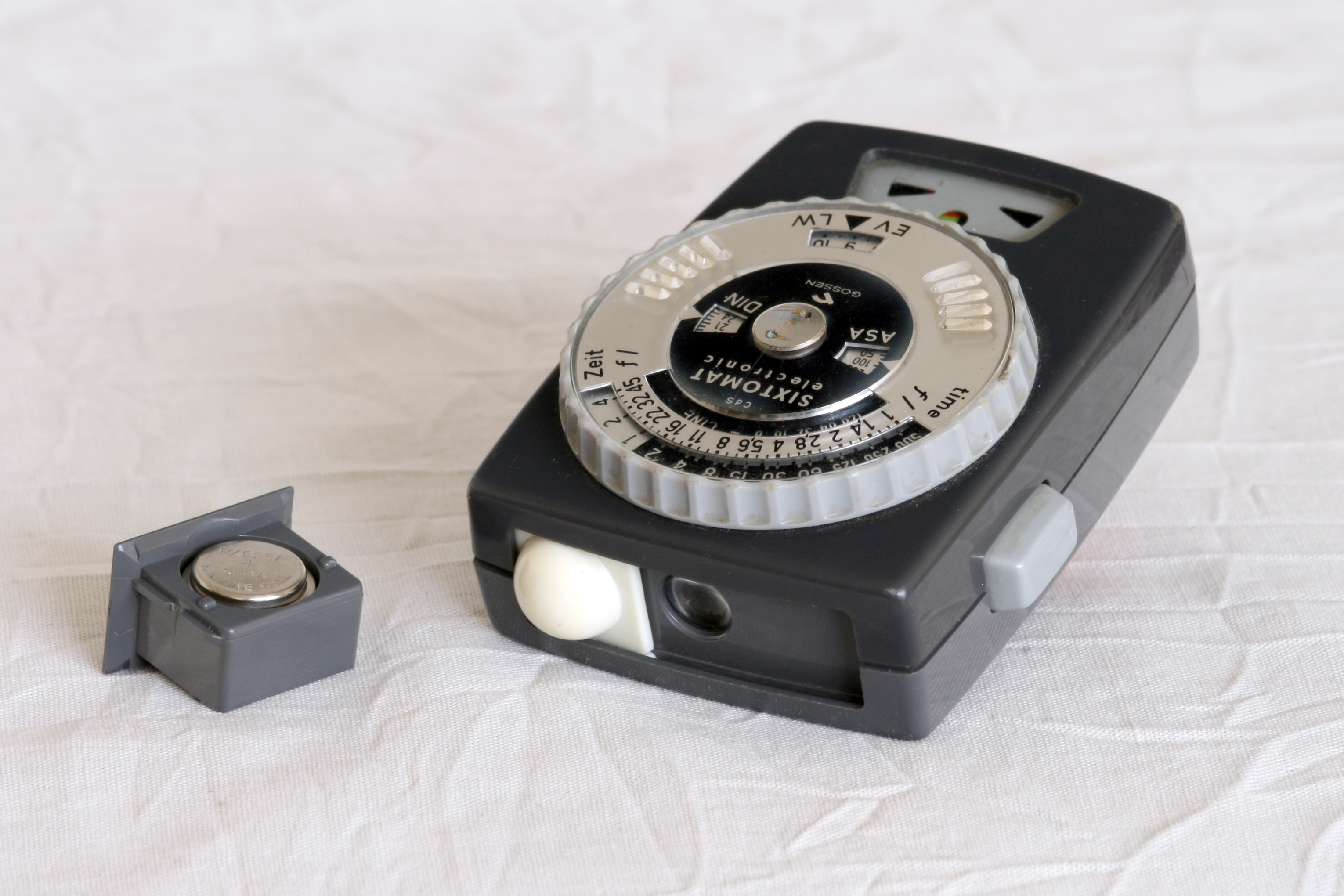 Gossen Sixtomat Light metter